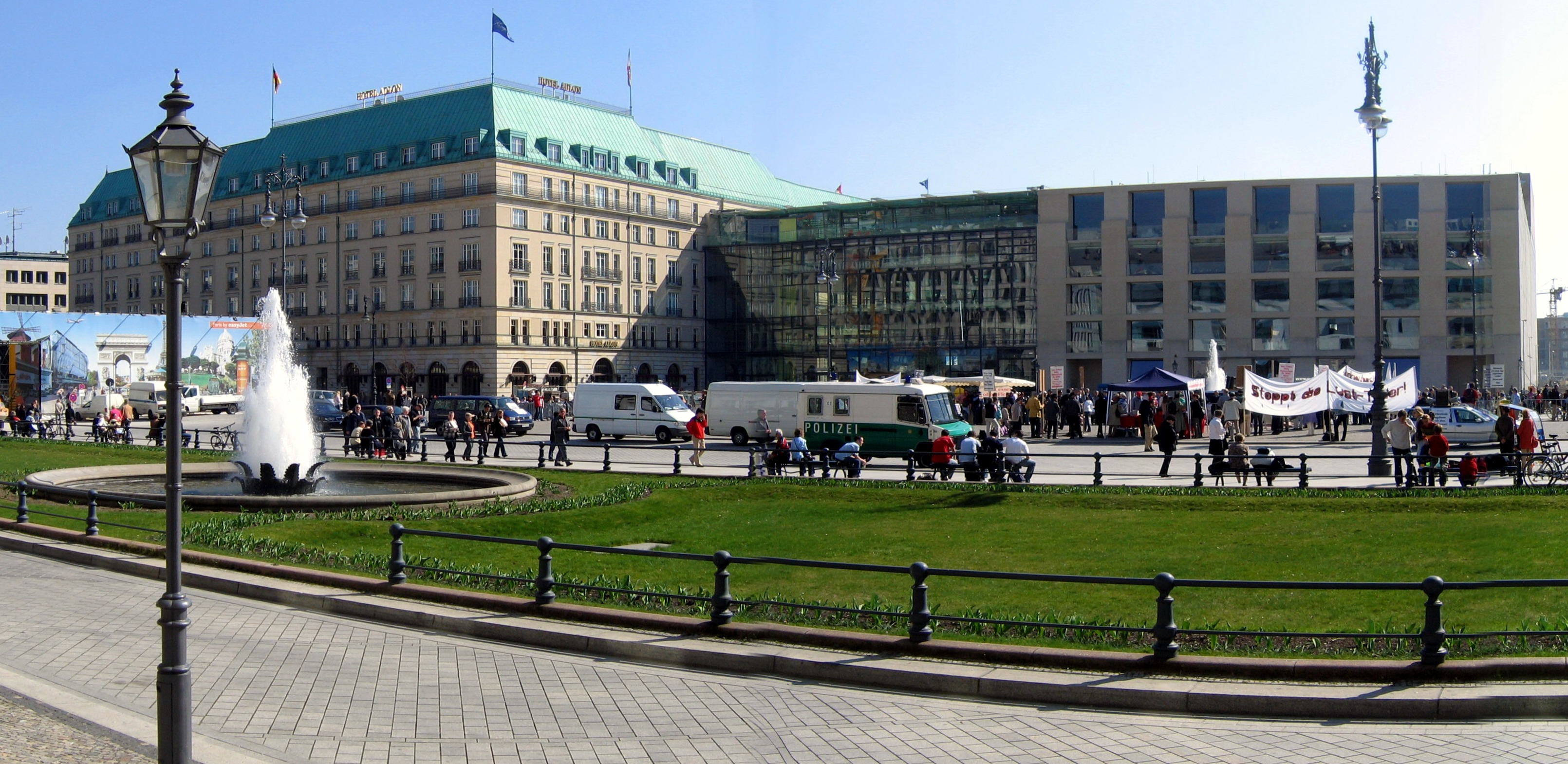 Anti-hunting demonstration organized by the "Initiative zur Abschaffung der Jagd" and supported by the cult "Universelles Leben", Berlin 2005